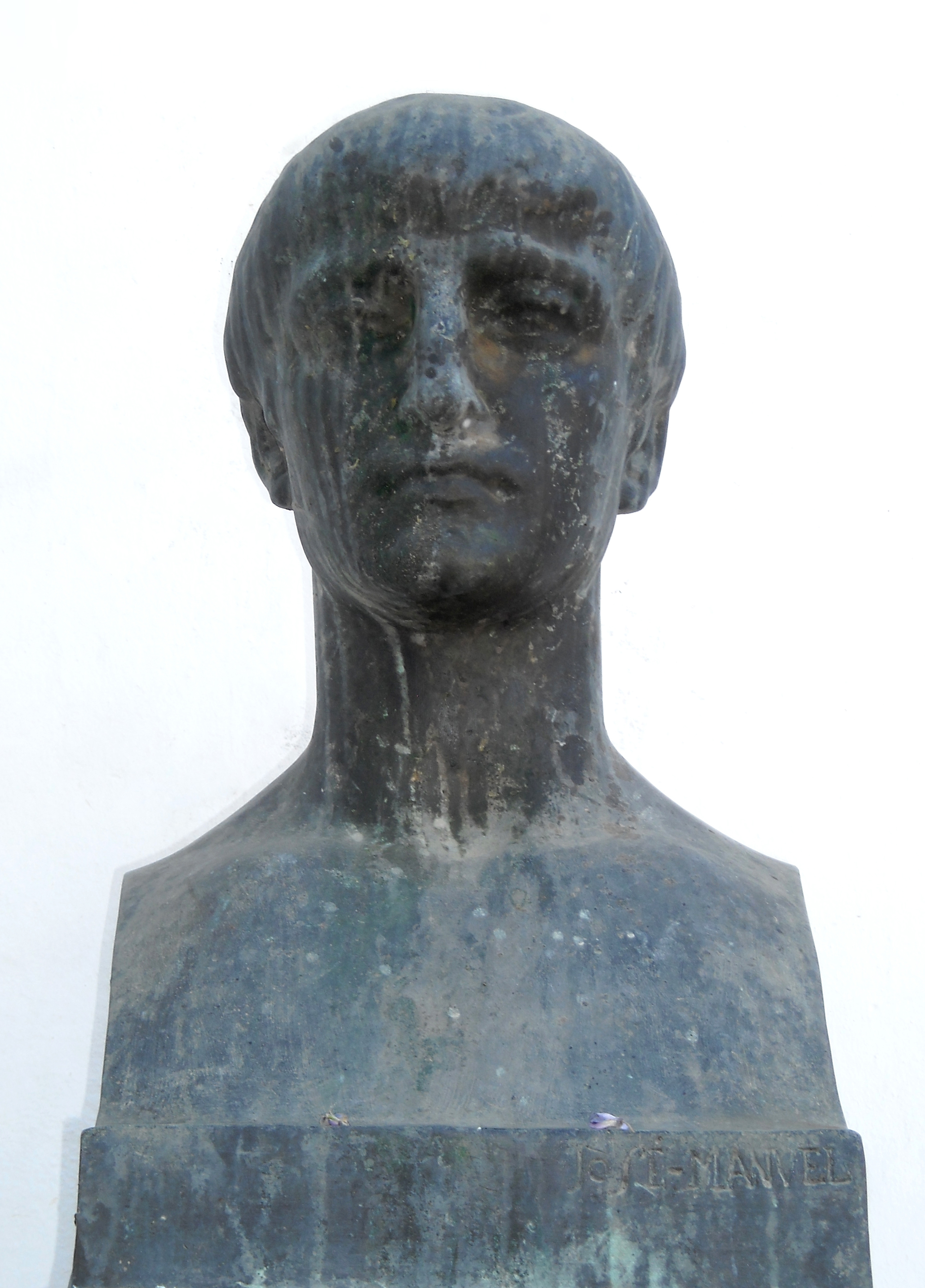 Bust of the Roman poet Lucan, Córdoba, Spain